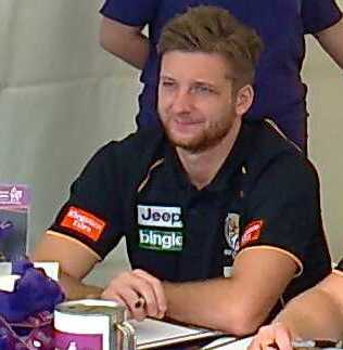 Photograph taken February 2014